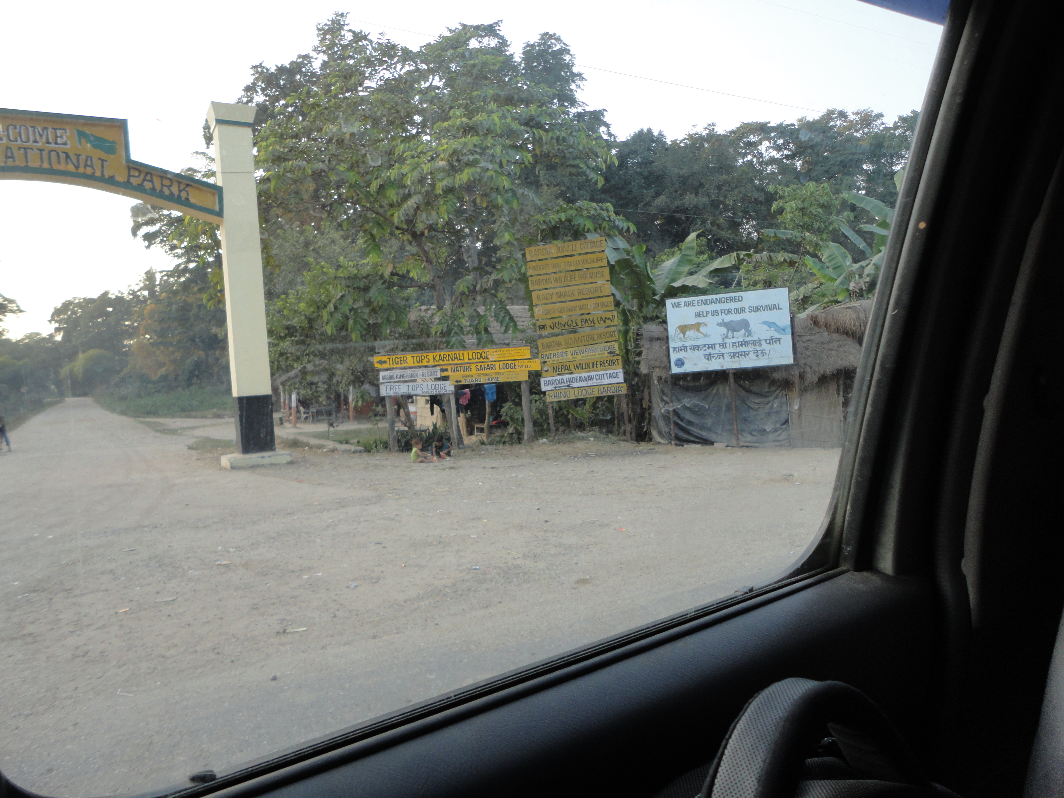 Sign boards of various jungle lodges in the gate of Bardiya National Park in western Nepal